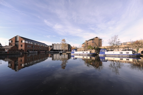 Victoria Quays Sheffield